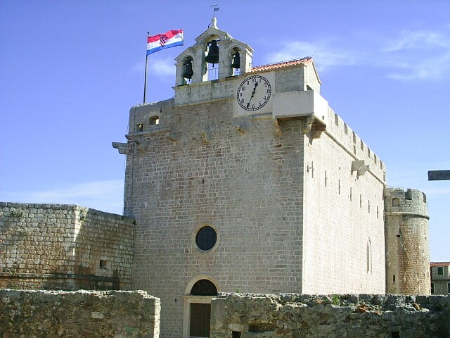 Vrboska Village on the Hvar Island, Croatia